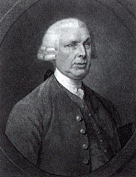 Composer and organist John Stanley (1712-1786).